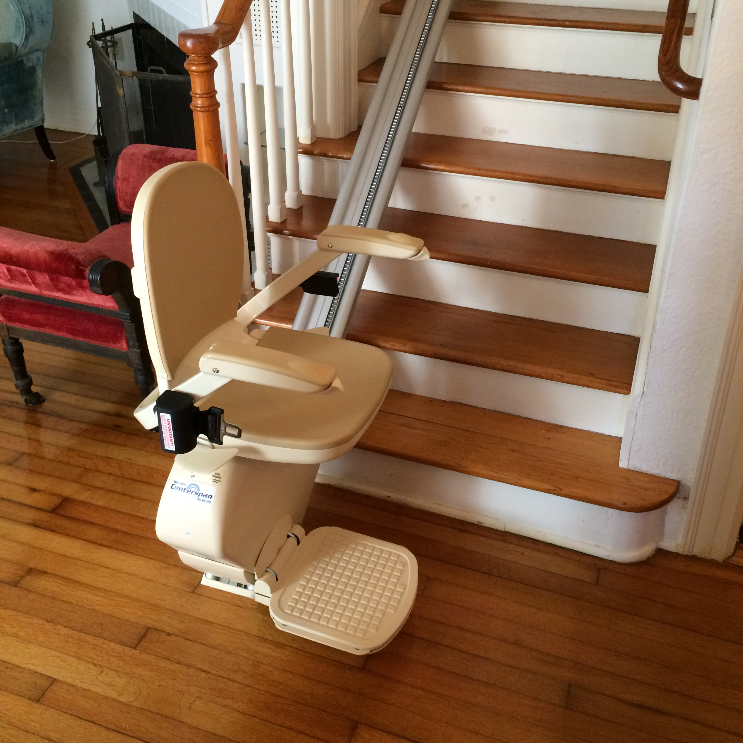 A straight rail stairlift installed in a Long Island home by Centerspan Medical. This Centerspan Medical stairlift allows the mobility-challenged user to gain safe access to the upper and/or lower floors of his or her home.